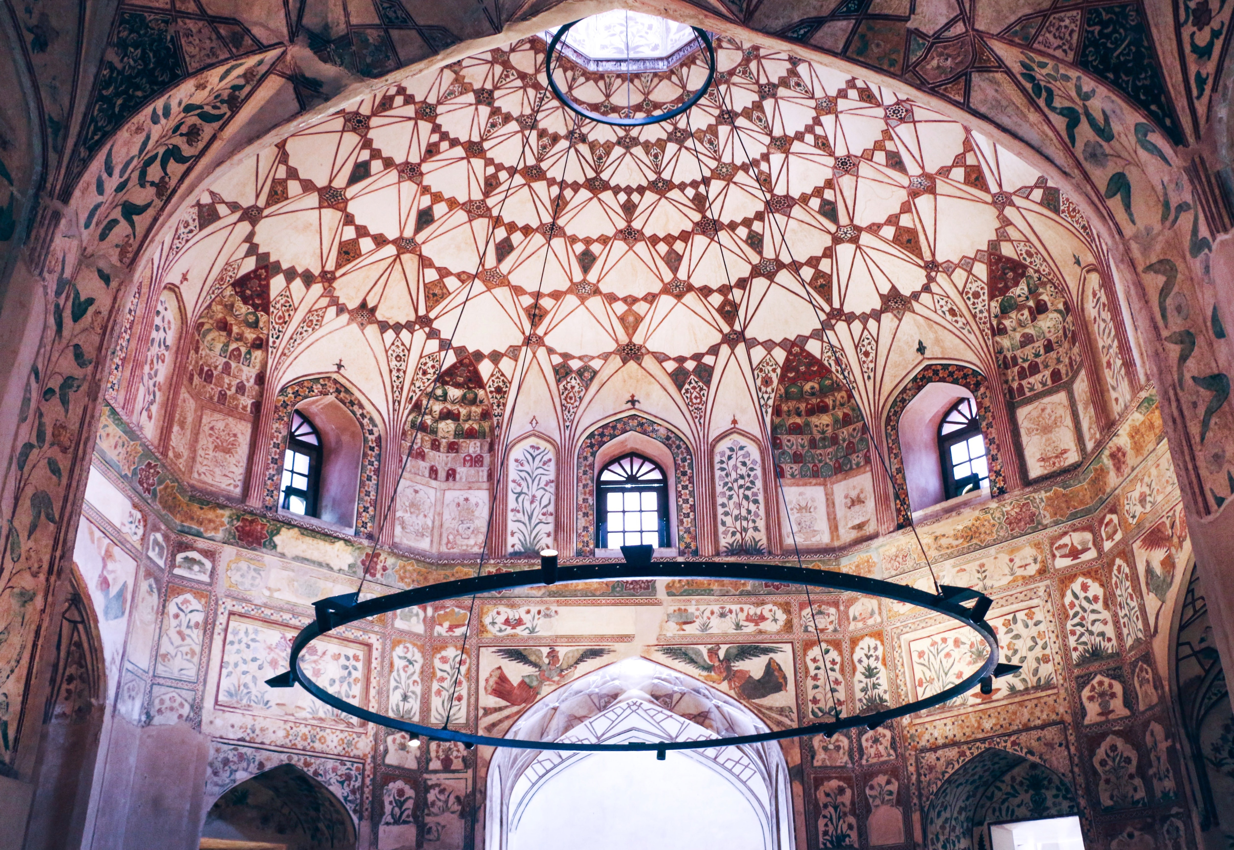 Shahi Hammam (Wazir Khan's hammam) This is a photo of a monument in Pakistan identified as the PB-99